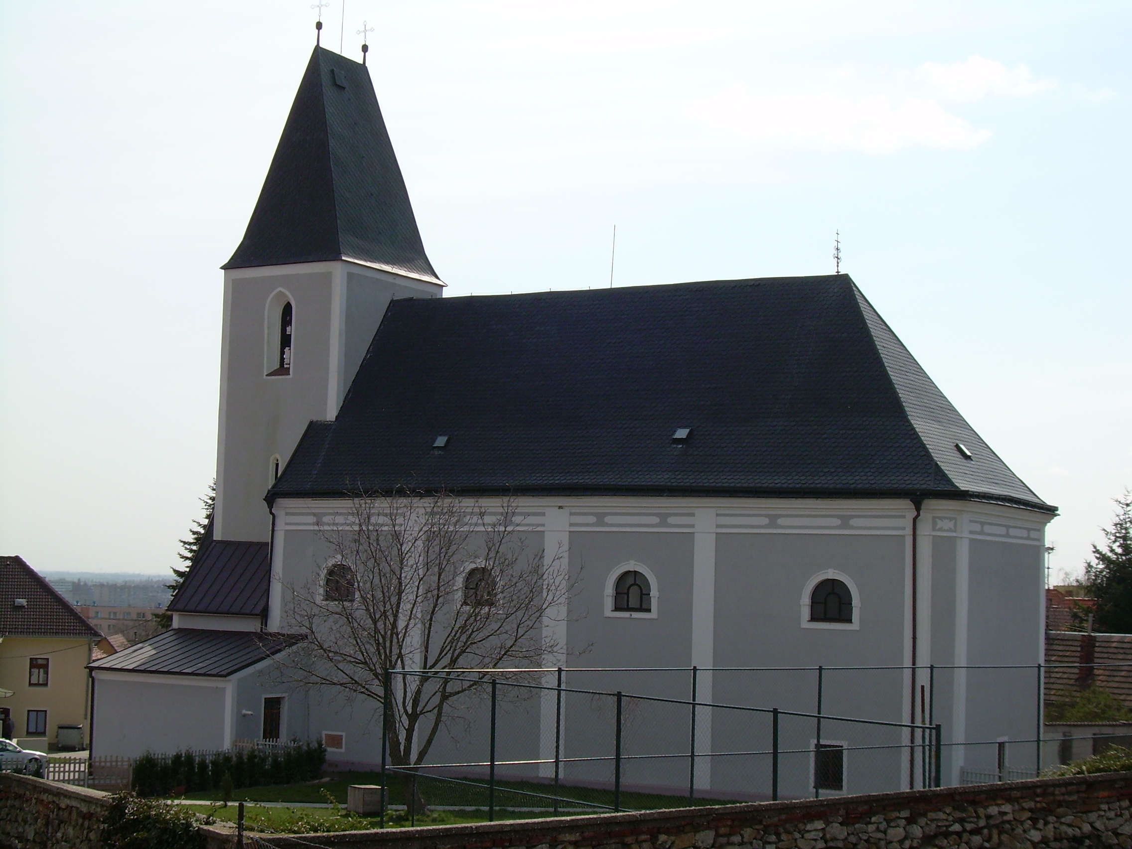 SS Philip and James church in Bratislava-Rača, Slovakia